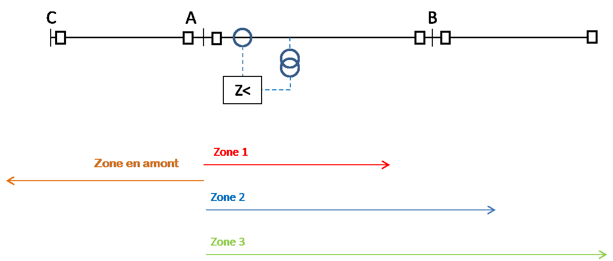 Zone protection principle